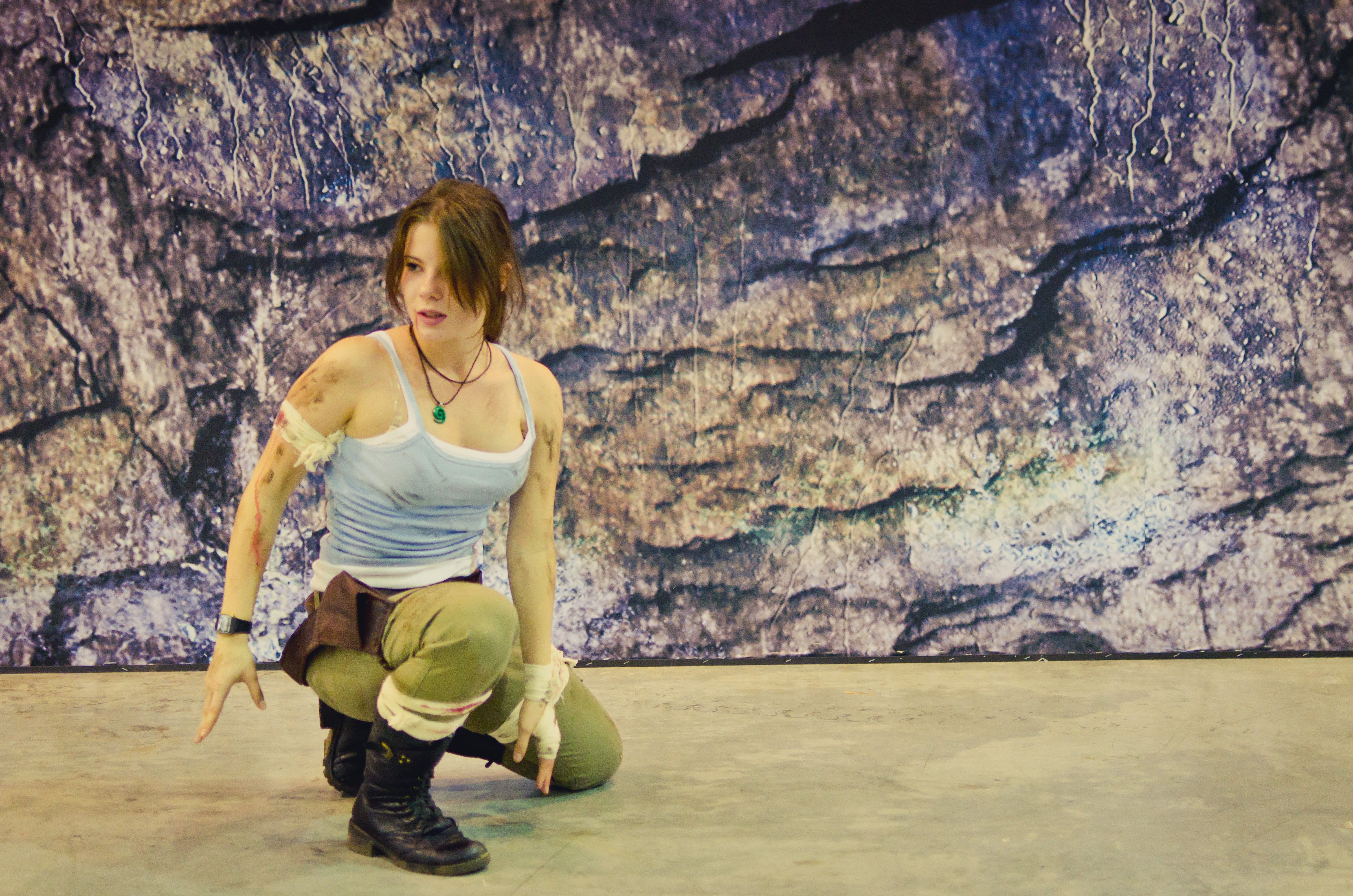 Lara Croft at Igromir 2011